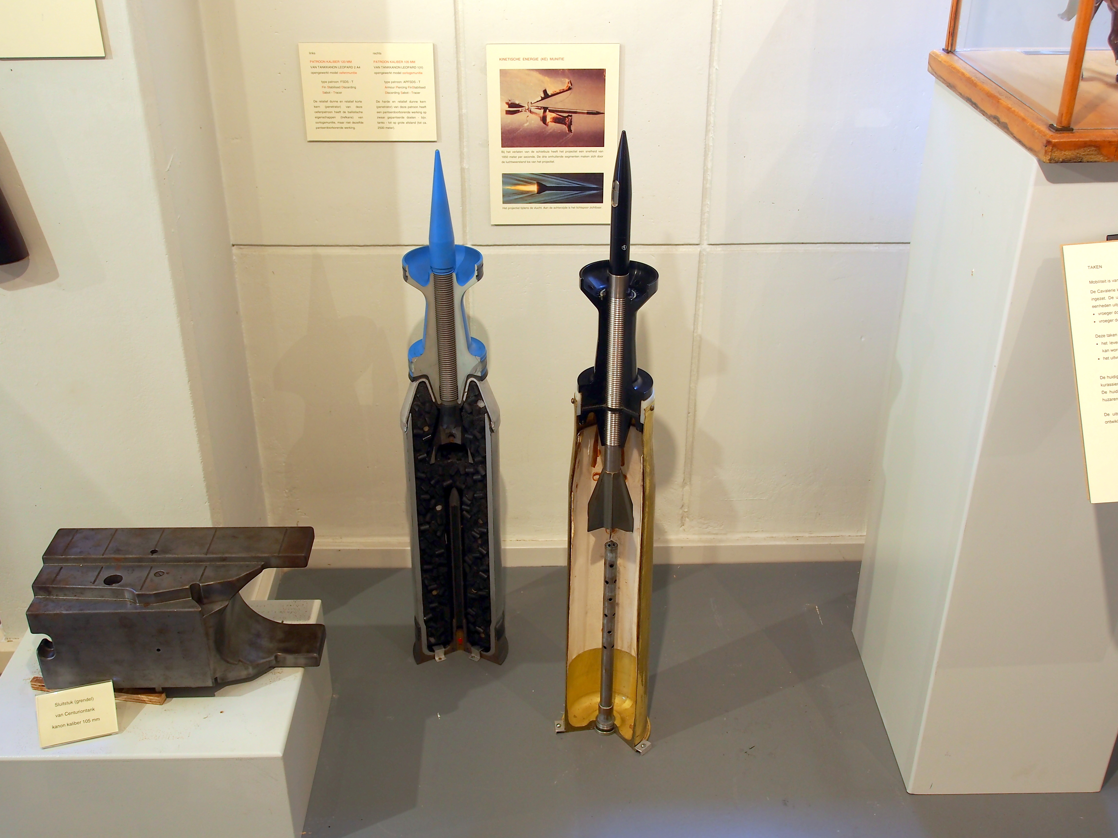 Photographed at Cavaleriemuseum, Amersfoort, The Netherlands.